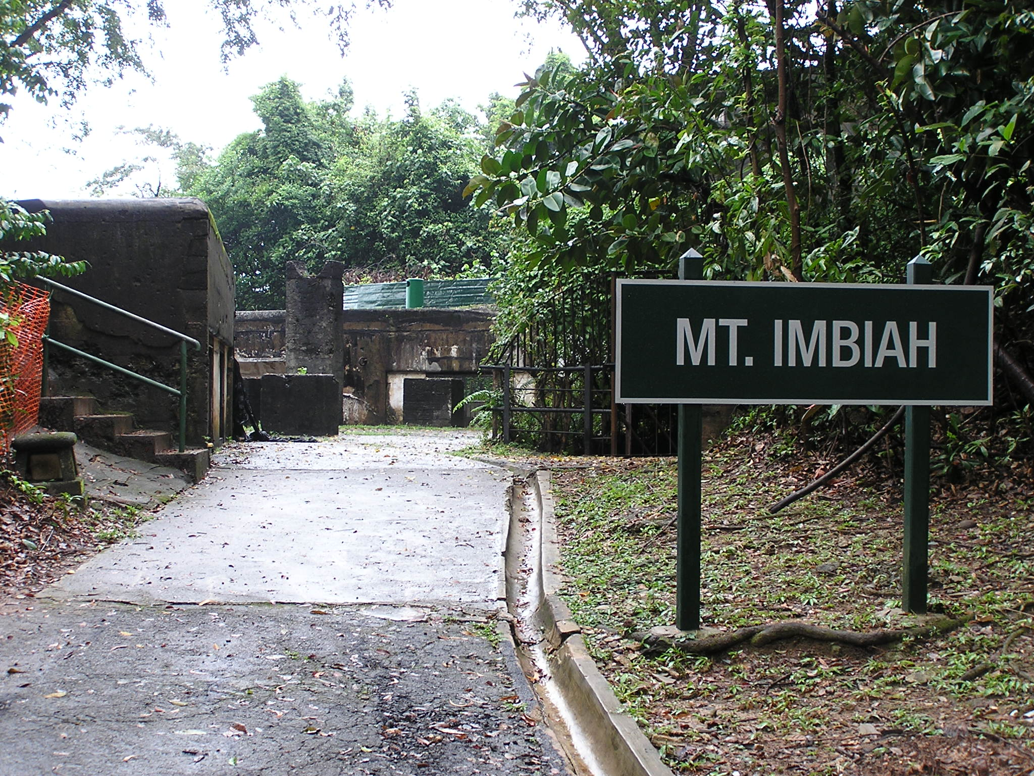 The remains of a gun emplacement at Mount Imbiah, Sentosa, Singapore.